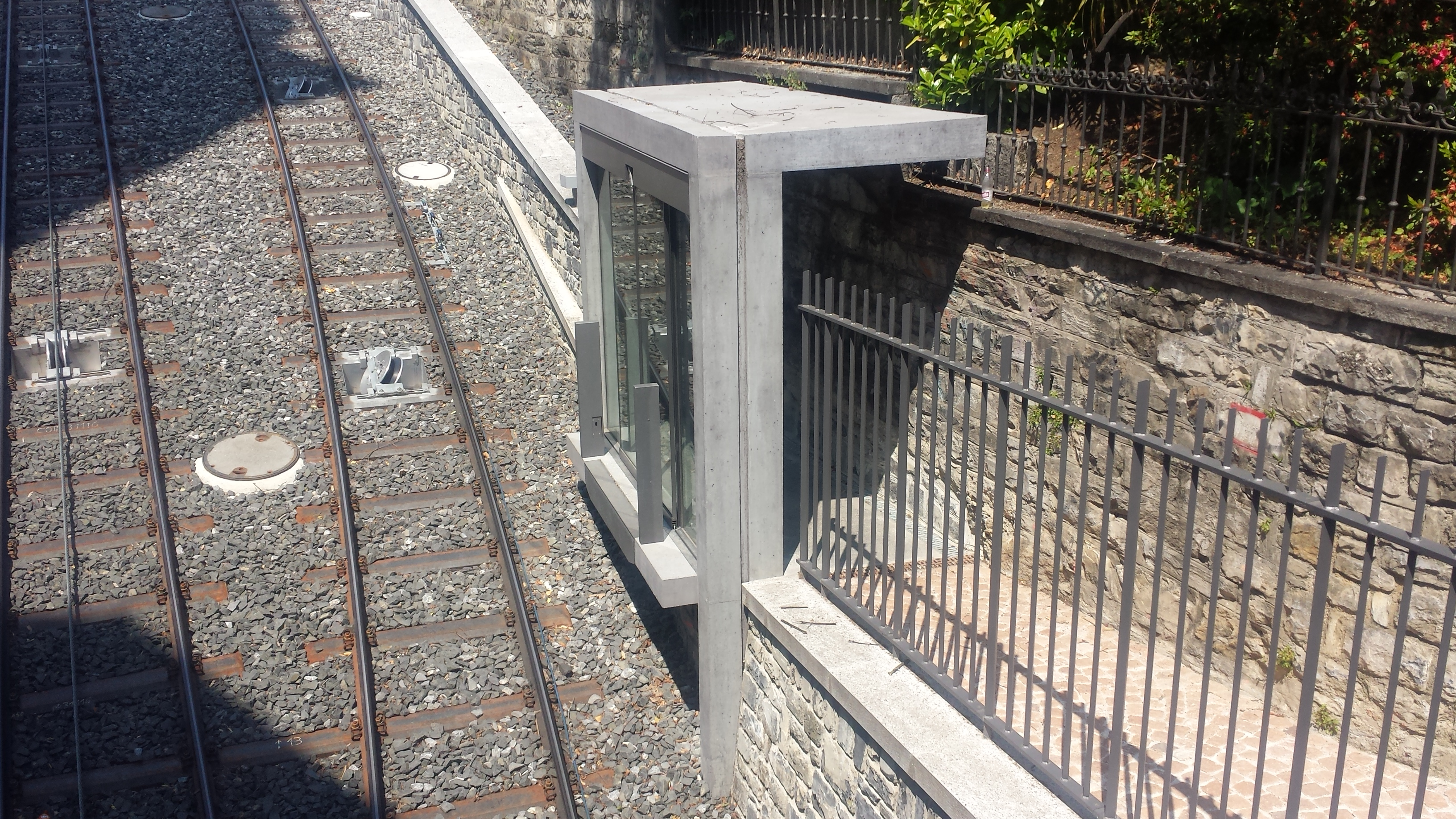 The intermediate Cattedrale stop, on the Funicolare Lugano-Stazione in the Swiss city of Lugano, seen from the Via Borghetto.